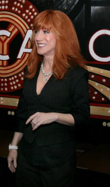 Kathy Griffin, before her performance at the historical Chicago Theater, Thursday, Oct. 16, 2008.